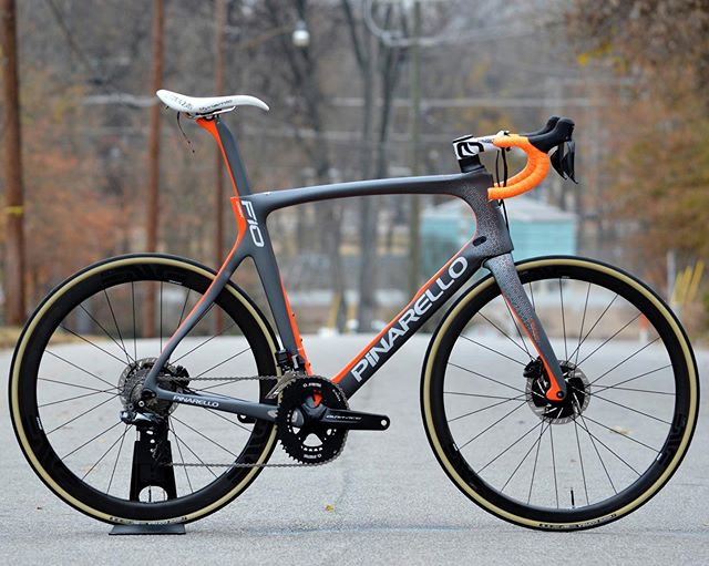 Pinarello F10 bicycle